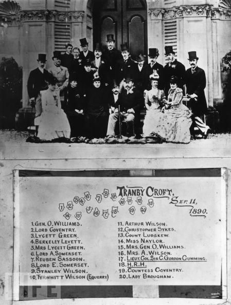 The cast of players involved in the Royal Baccarat Scandal. Photo taken at Tranby Croft, the country home of Sir Arthur Wilson. Among those pictured are: Sir William Gordon-Cumming (1848–1930); Lycett Green and his wife: Capt. Berkeley Levett of the Scots Guards; Sir Arthur Wilson and Mrs. Wilson; Lord Coventry; Lord Somerset; and HRH Edward, Prince of Wales, later King Edward VII of England.